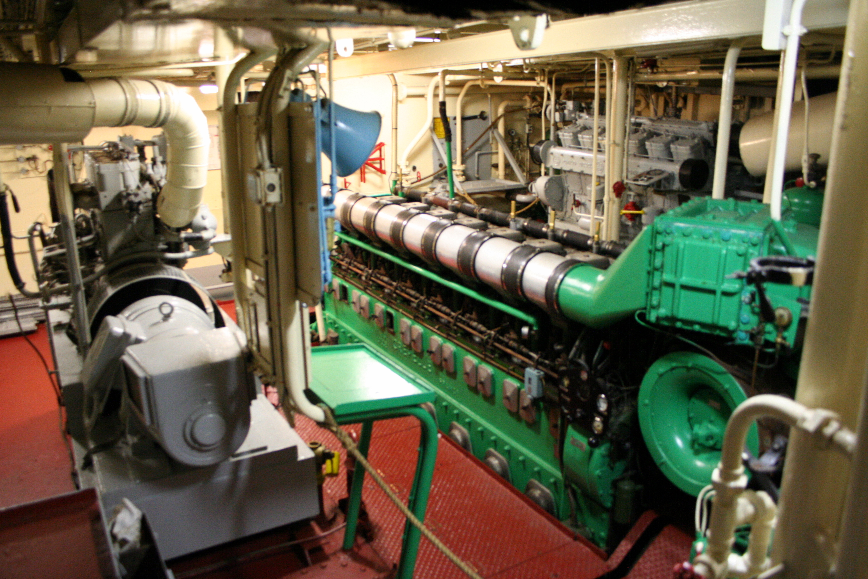 General view of the engine room on the trawler Angoumois